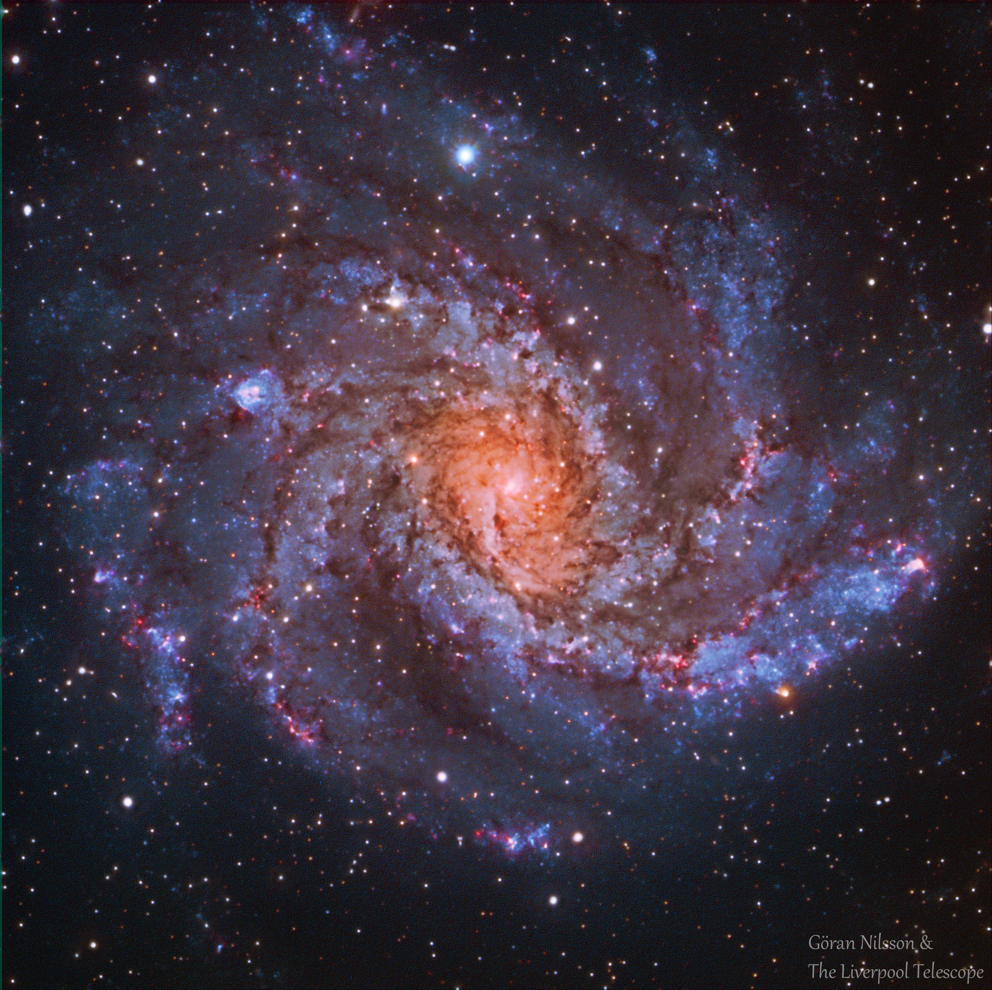 RGB image of the galaxy NGC 6946. Data from the Liverpool Telescope, a 2 m RC telescope on La Palma, processed by Göran Nilsson. 52 x 90s exposures totaling 1.3 hours